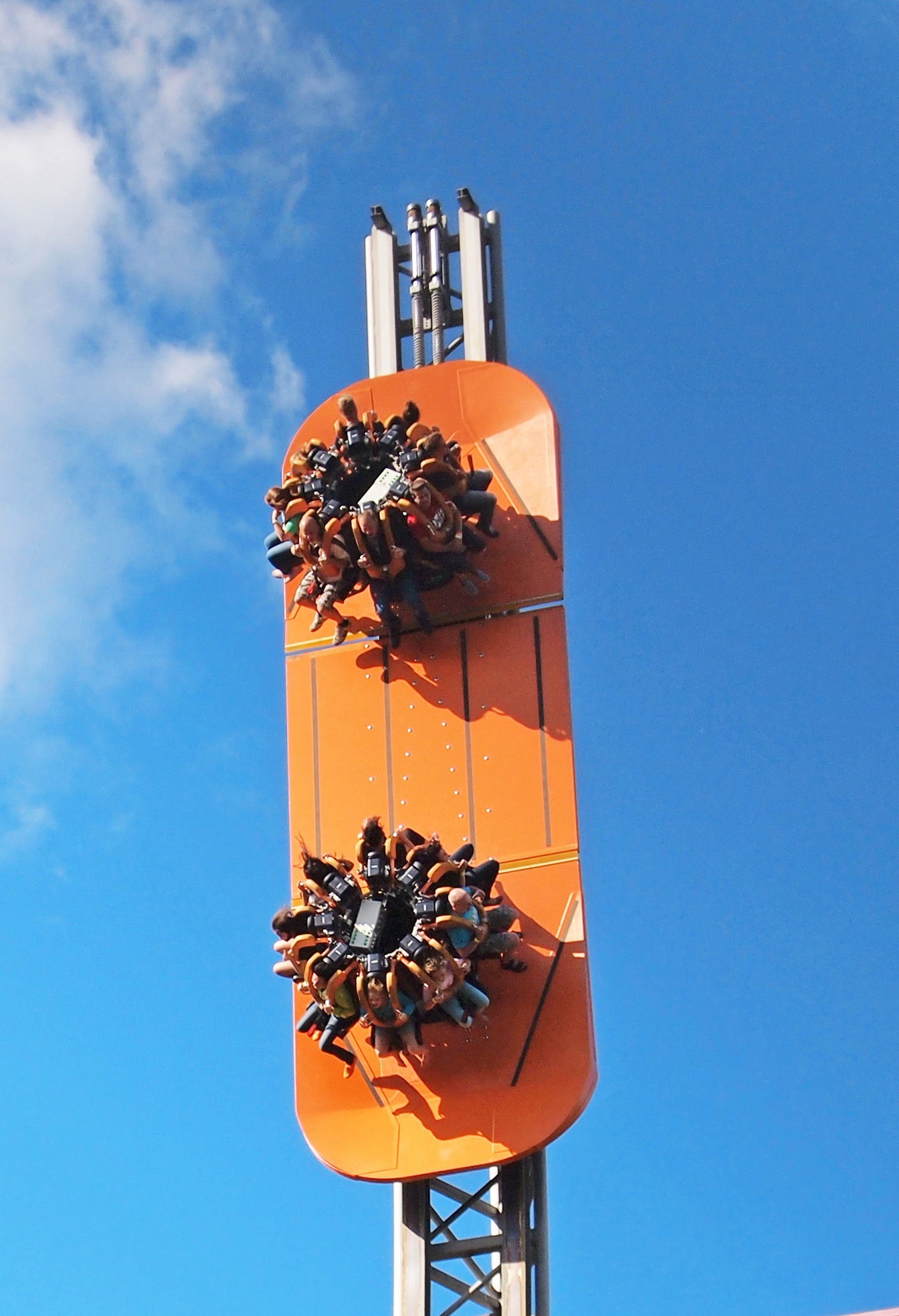 Half Pipe ride in Särkänniemi amusement park, Tampere. This photograph was taken with an Olympus E-PL1